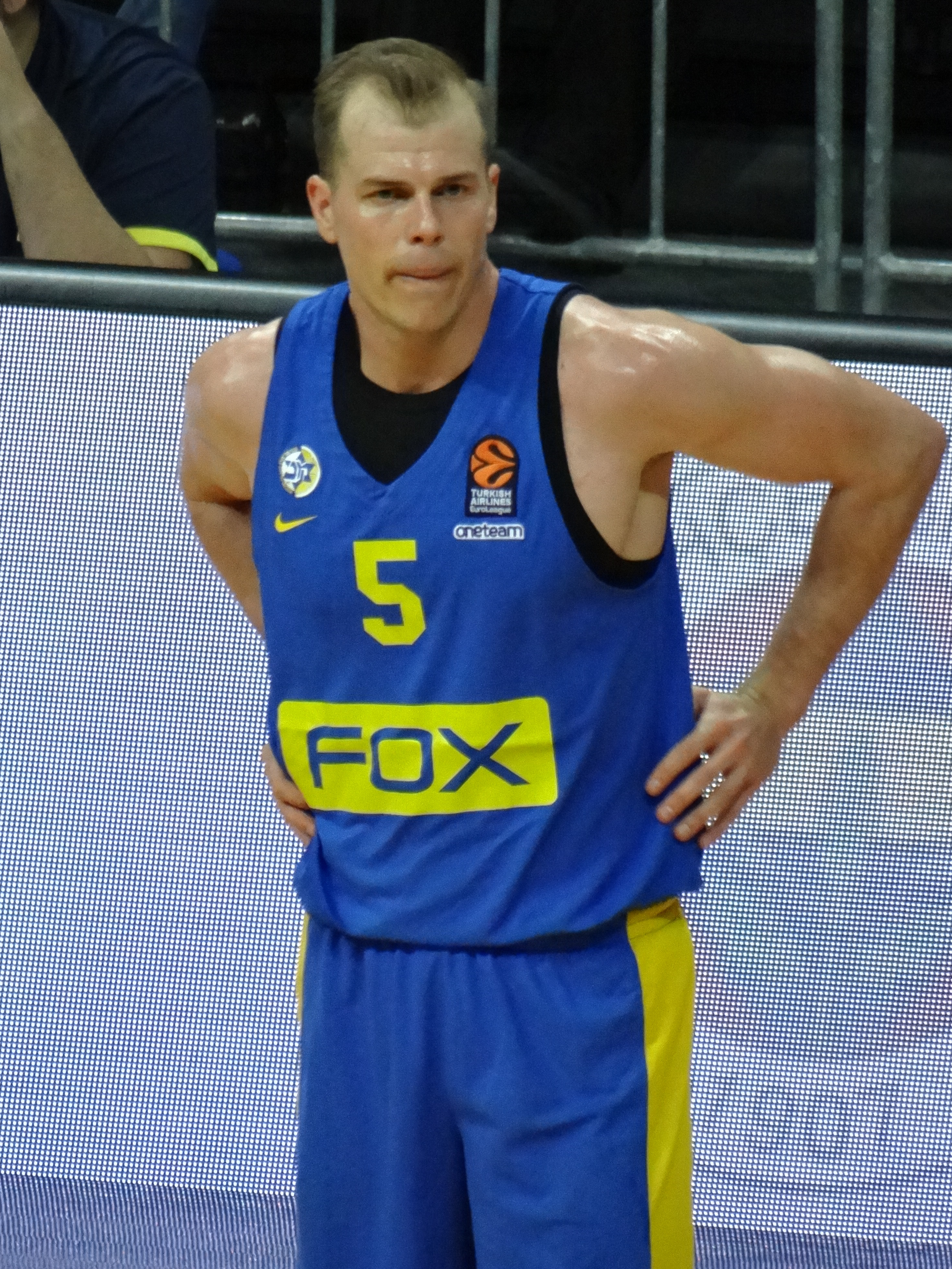 Michael Roll (basketball) 5 Maccabi Tel Aviv B.C. EuroLeague 20180320